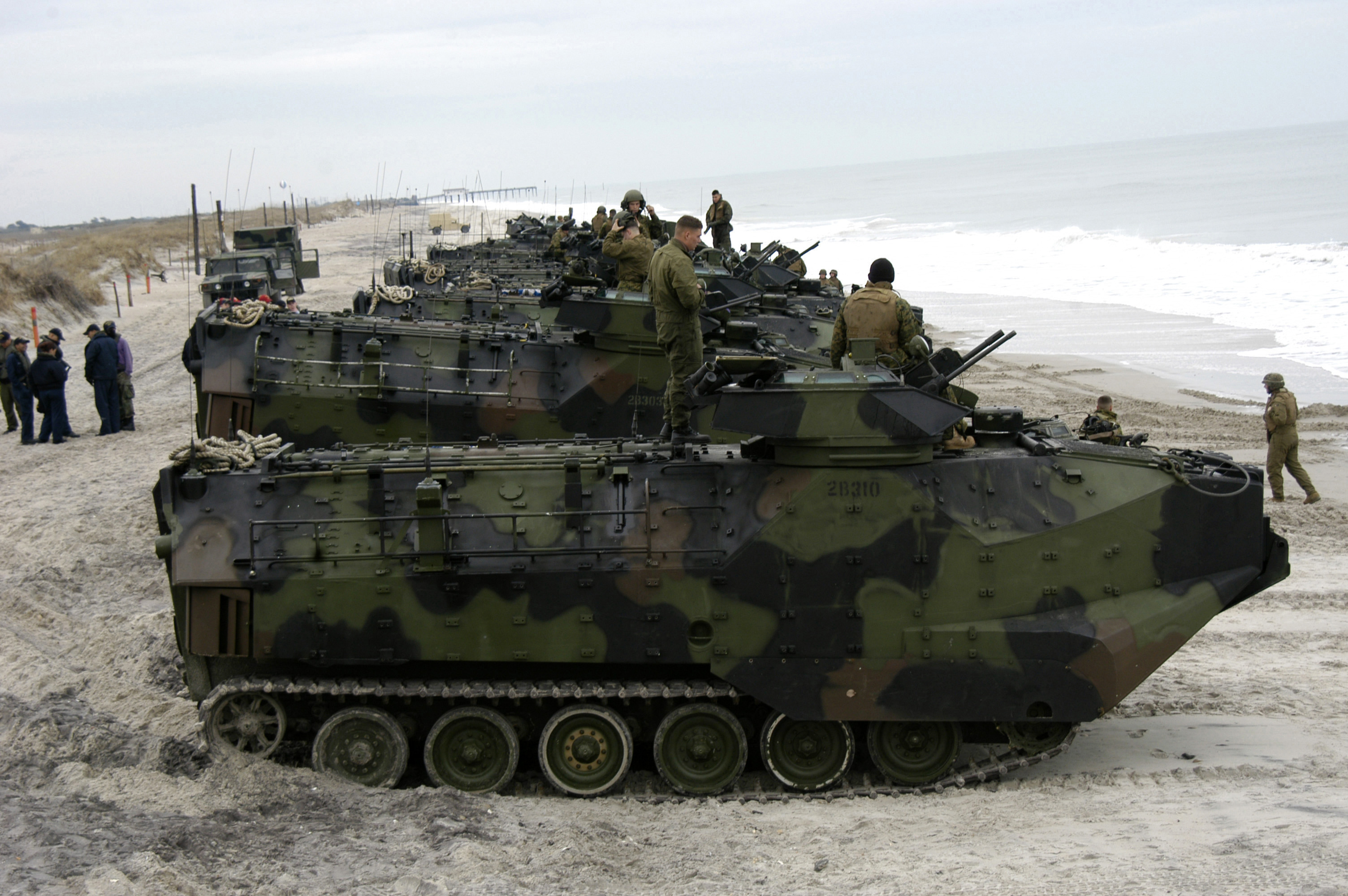 Atlantic Ocean (Feb. 23, 2006) – U.S. Marine Corps Amphibious Assault Vehicles (AAV) assigned to the 2nd AA Battalion, Bravo Company arrive on Onslow Beach as part of a beach invasion exercise. The exercise was one part of the amphibious assault ship USS Bataan (LHD 5) well deck certification. U.S. Navy photo by Lithographer 3rd Class Justin Webster (RELEASED)